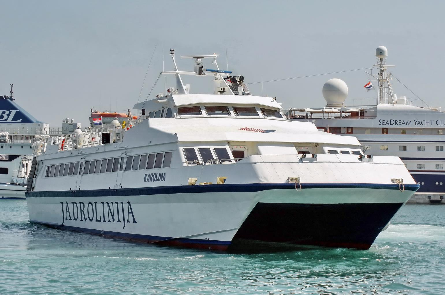 Karolina departing the port of Split Time-space: Jun 20, 2012; CEST 15:05:53; N 43°30'21", E16°26'24".